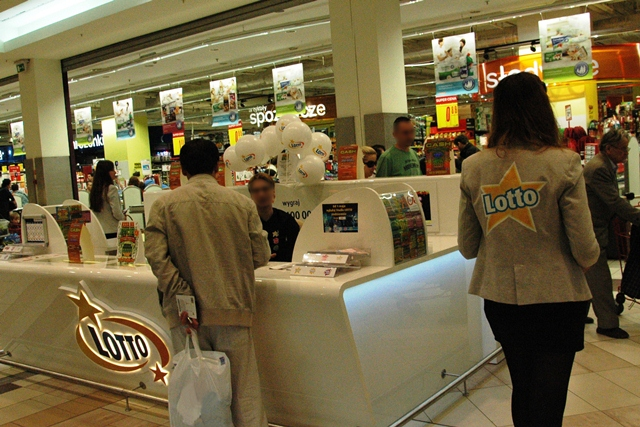 Punkt sprzedaży LOTTO w warszawskiej Galerii Mokotów